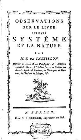 Frontpage of Observations sur le livre intitulé Systême de la nature (1771) by Giovanni Francesco Mauro Melchiorre Salvemini di Castiglione (1704-1791)